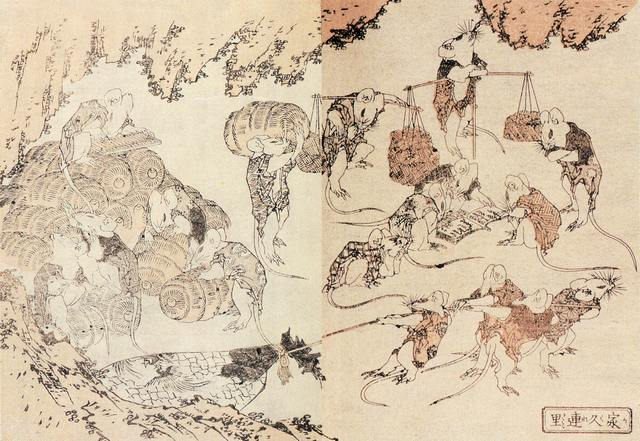 Kakurezato (utopia) from Hokusai Manga